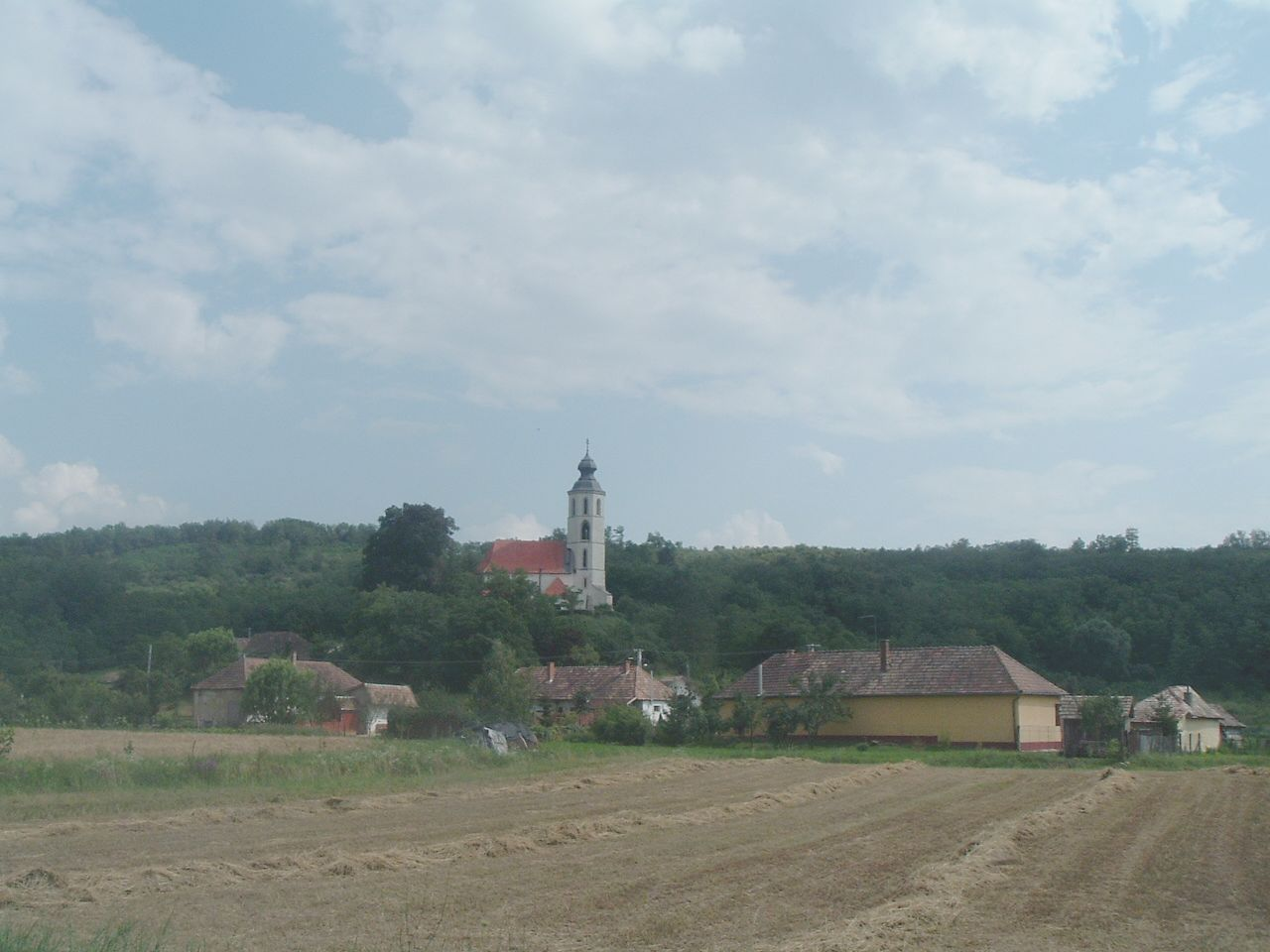 Cserhátsurány, Nógrád county